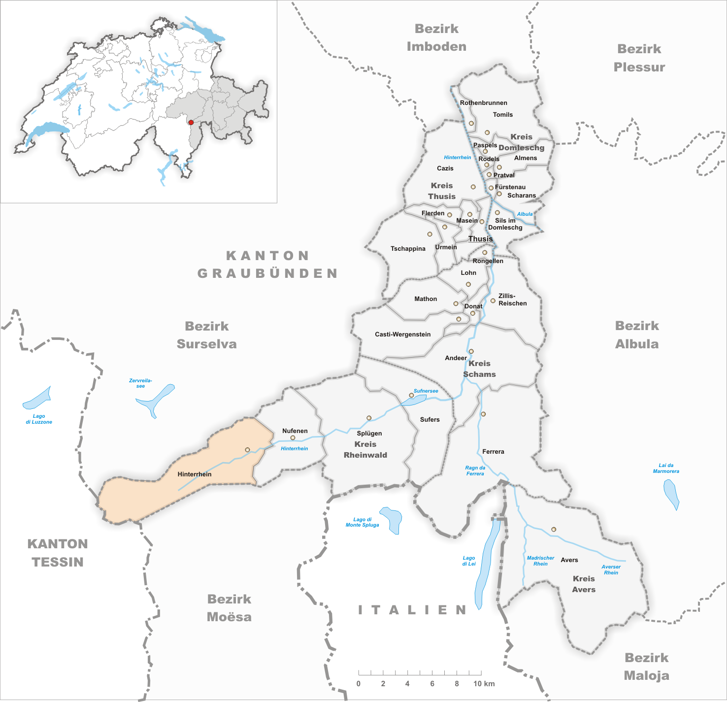 Municipality Hinterrhein